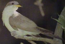 Yellow-billed cuckoo from USNPS